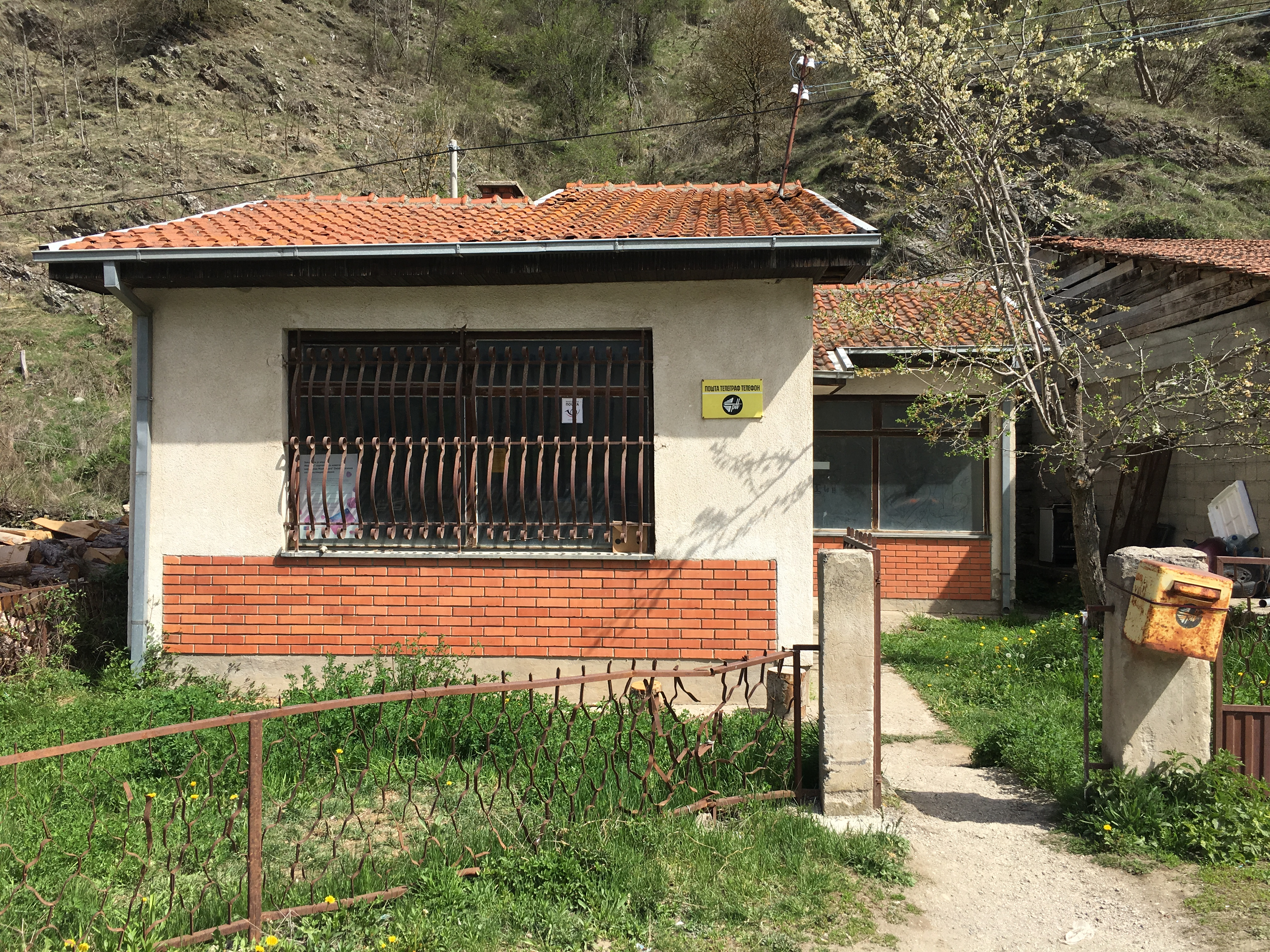 A post office in the village of Židilovo